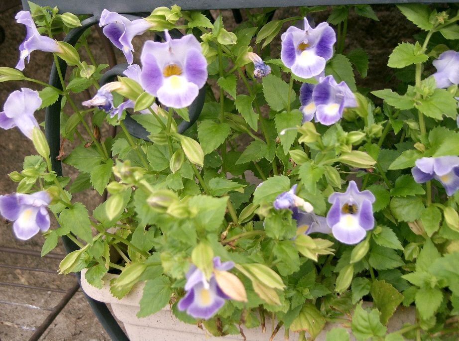 Torenia fournieri